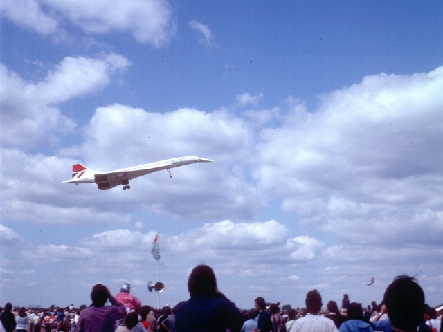 Concorde at Baginton Concorde performing a low-level wheels down flypast at a Baginton air show.